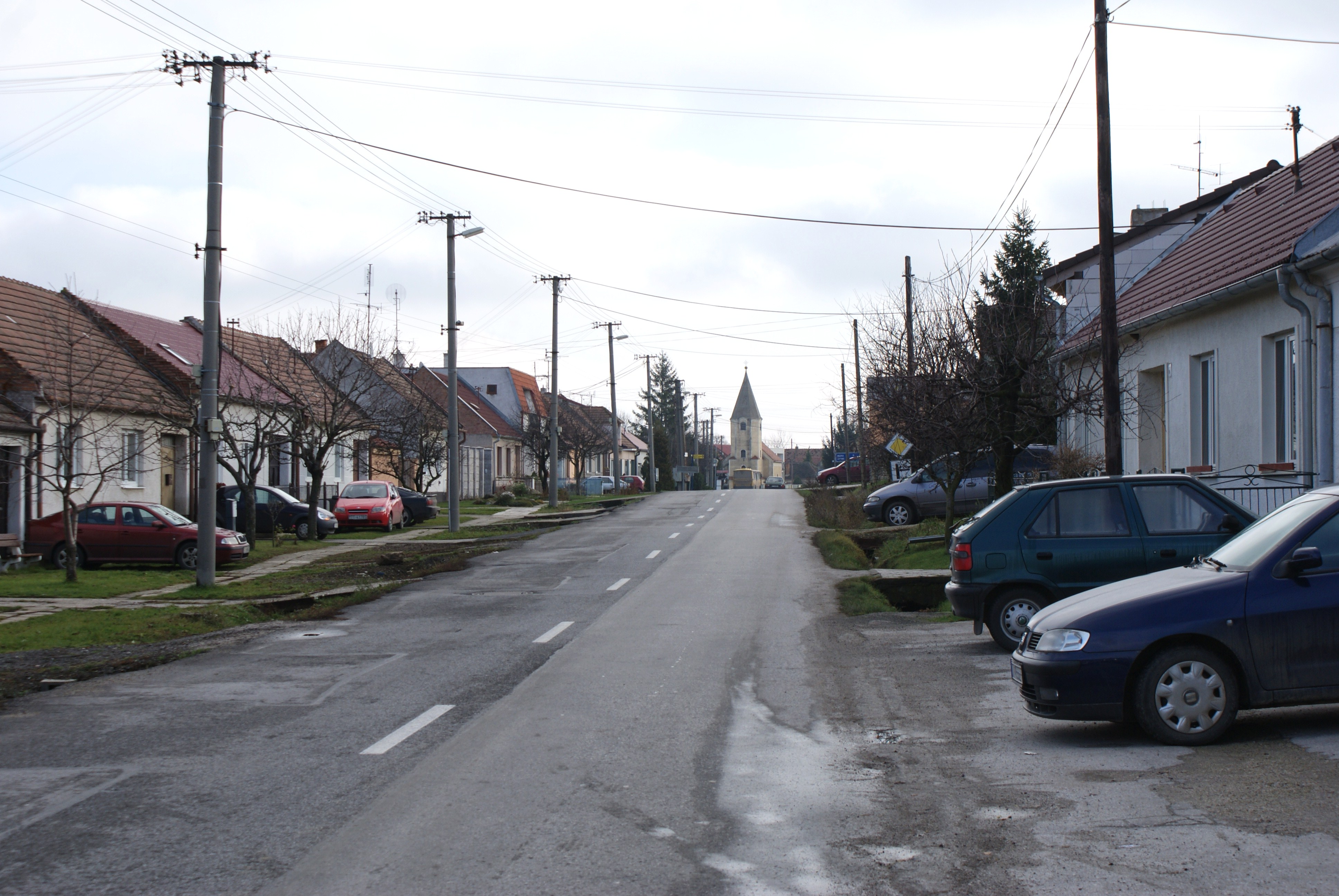 Košolná, a village in Trnava district, Slovakia, the main street.